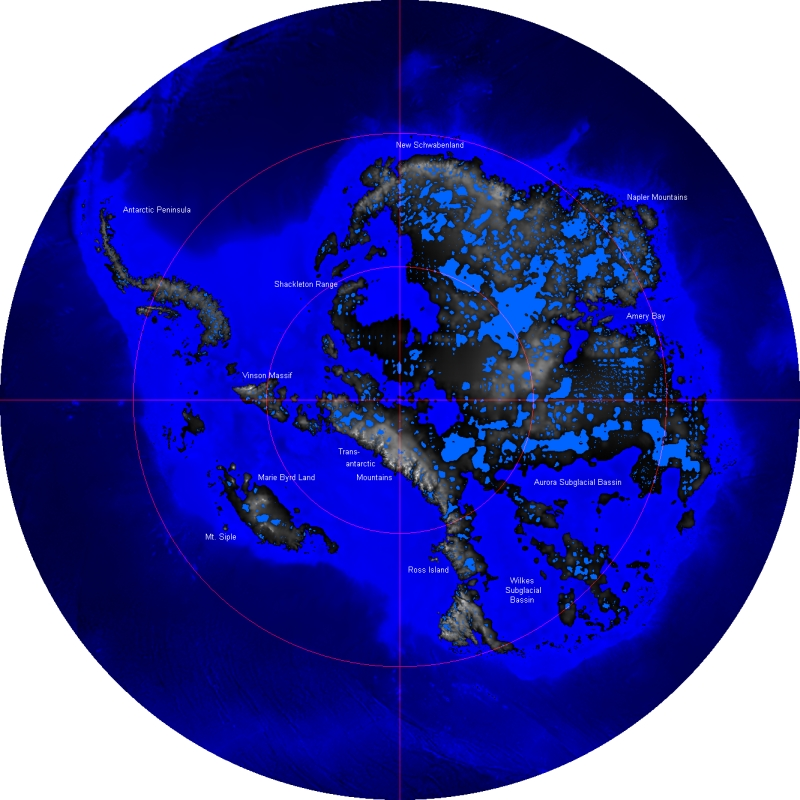 Rock surface of Antarctica and sea ground without its ice-shield, from 60 to 90 degrees South. This map does not consider that sea level would rise because of the melted ice, nor that the landmass would rise by several hundred meters over a few tens of thousands of years after the weight of the ice was no longer depressing the landmass.